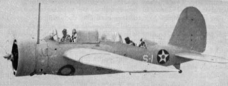 A U.S. Navy Naval Aircraft Factory SBN-1 naval scout bomber. 30 SBNs were licence-built by the Naval Aircraft Factory, following the single Brewster XSBA-1.